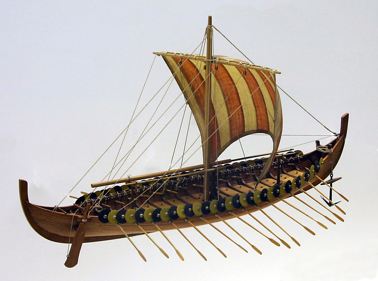 Model of the Gokstad ship